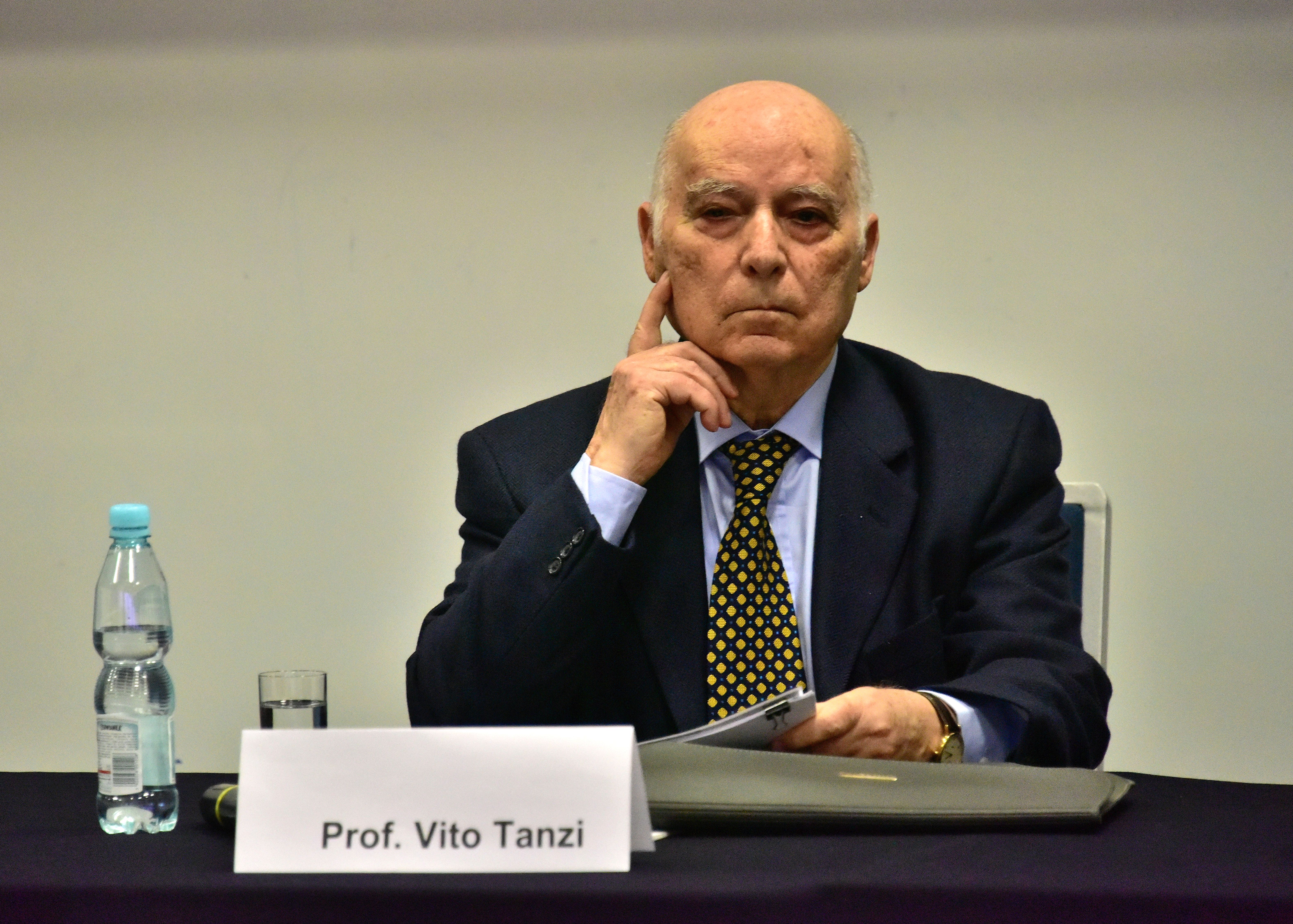 Professor Vito Tanzi during the conference "In Quest of a Better World: Economics and Politics" at the Kozminski University in Warsaw